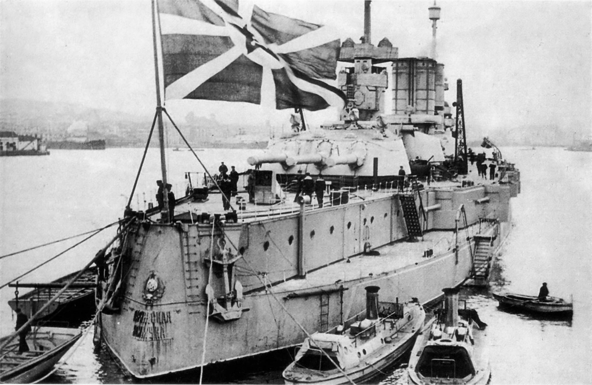 Soviet battleship Parizhskaia Kommuna at Sevastopol, 8 February 1930.